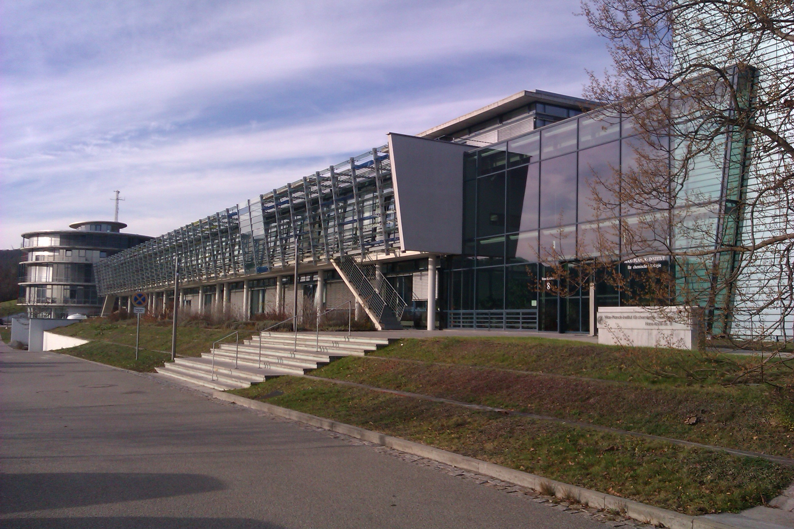 Max Planck Institute for Chemical Ecology